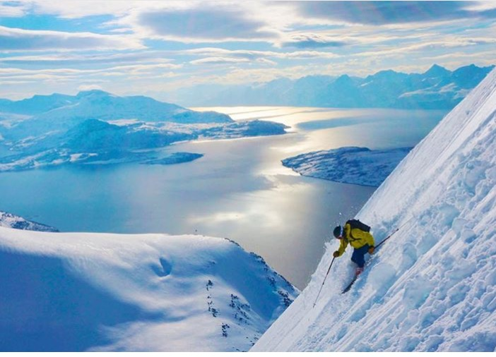 Skiing down Norwegian summit